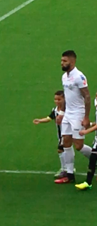 Gabigol before a game in 2016